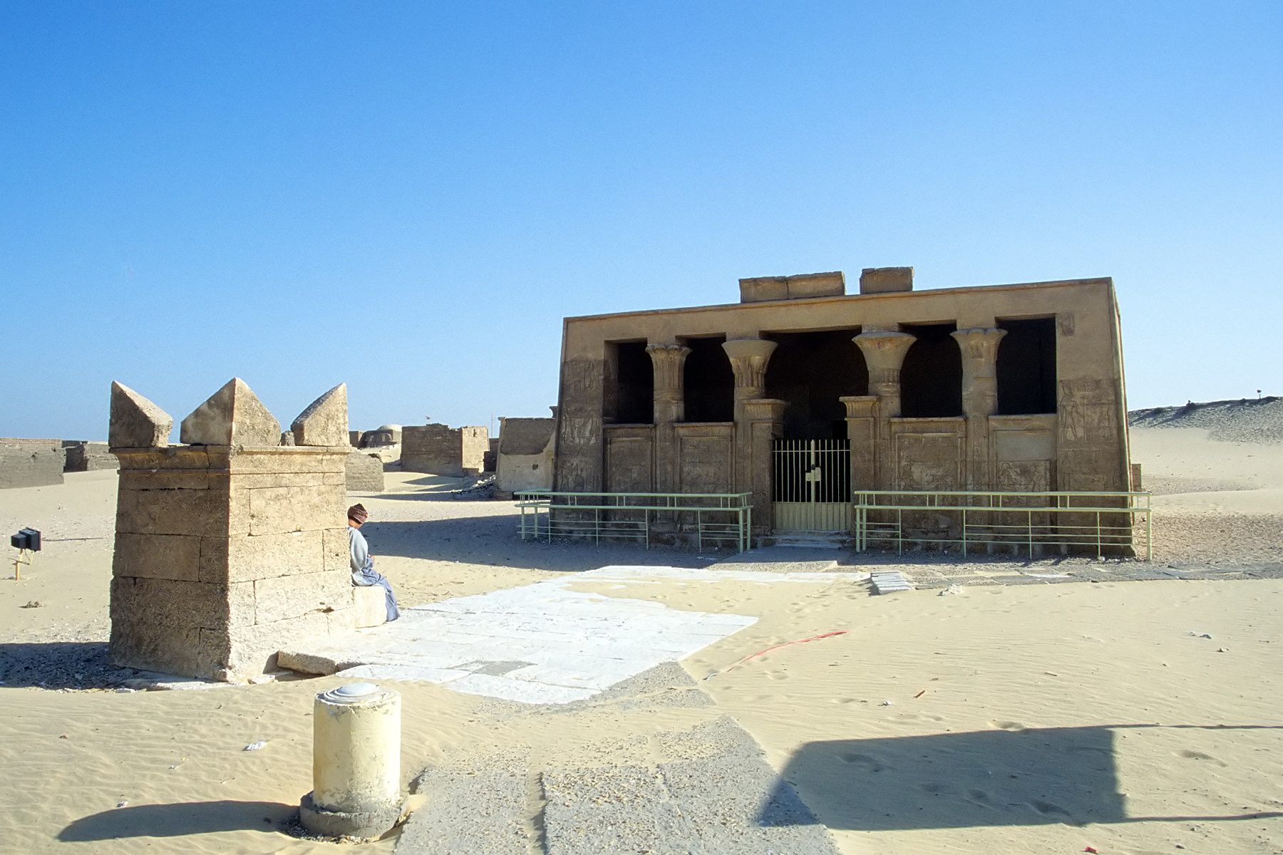 Tomb of Petosiris (north side), Tuna el-Gebel, Egypt